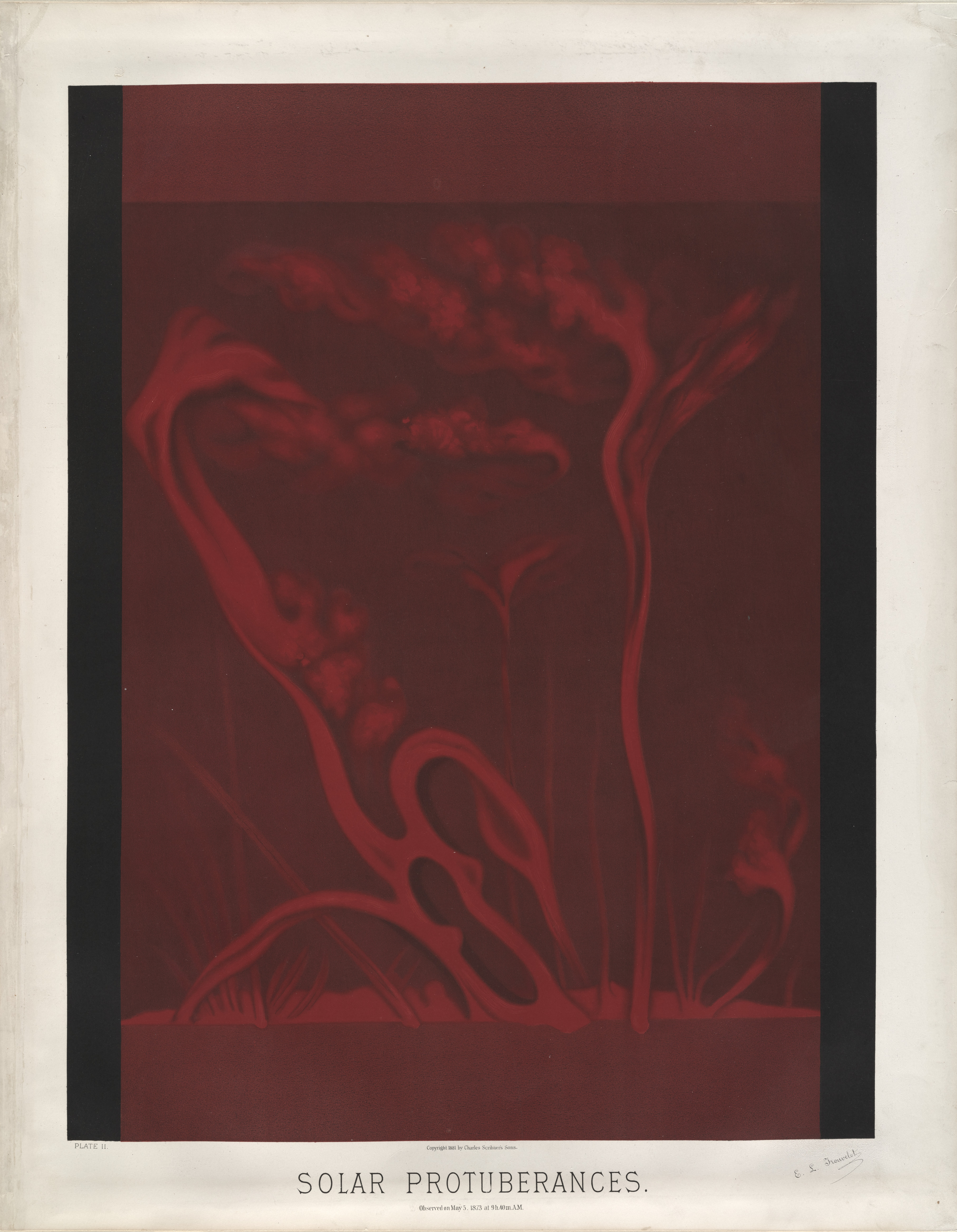 Solar protuberances. Observed on May 5, 1873 at 9h, 40m. A.M. (Plate II from The Trouvelot Astronomical Drawings 1881)